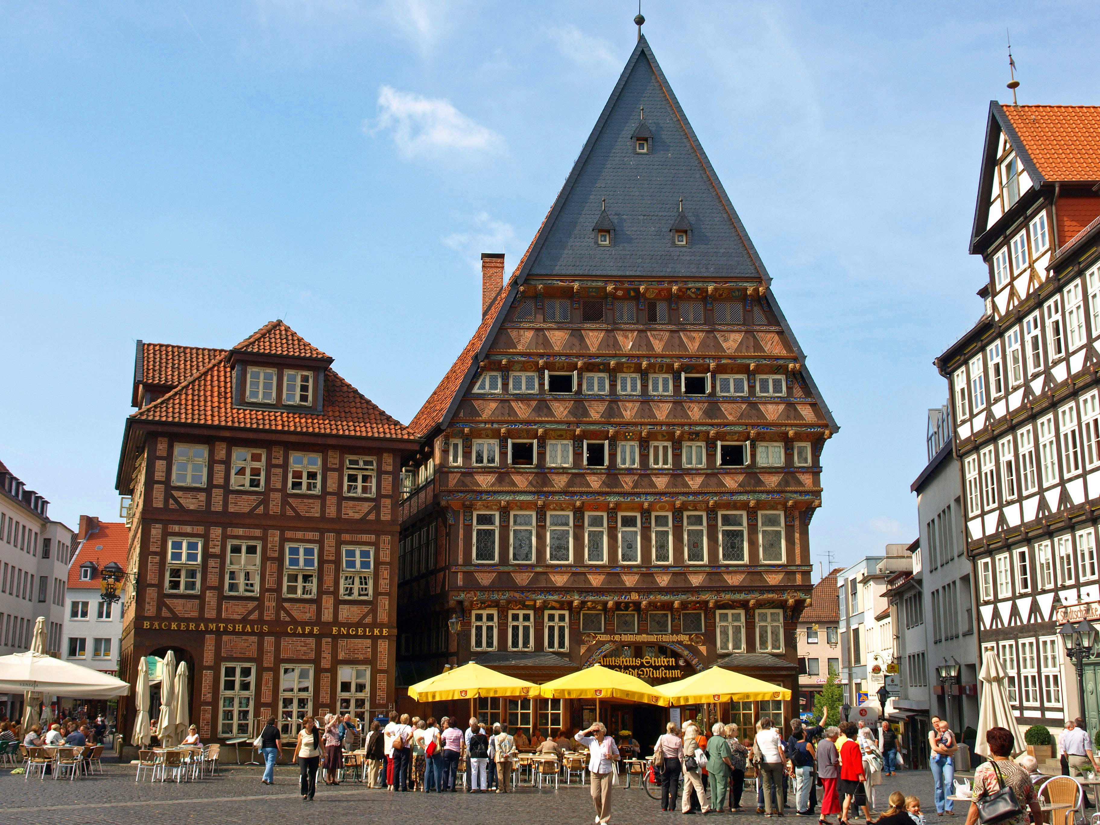 Knochenhaueramtshaus and Bäckeramtshaus in Hildesheim